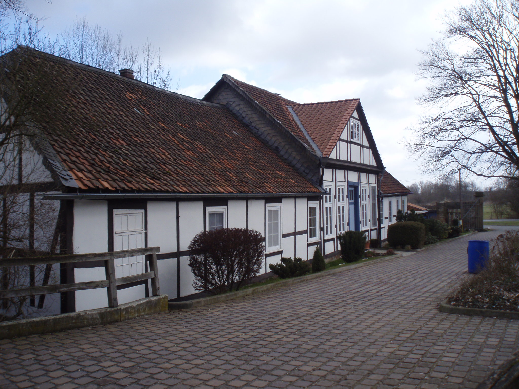 Residential Building of Monastery Wöltingerode near Vienenburg in Lower Saxony, Germany